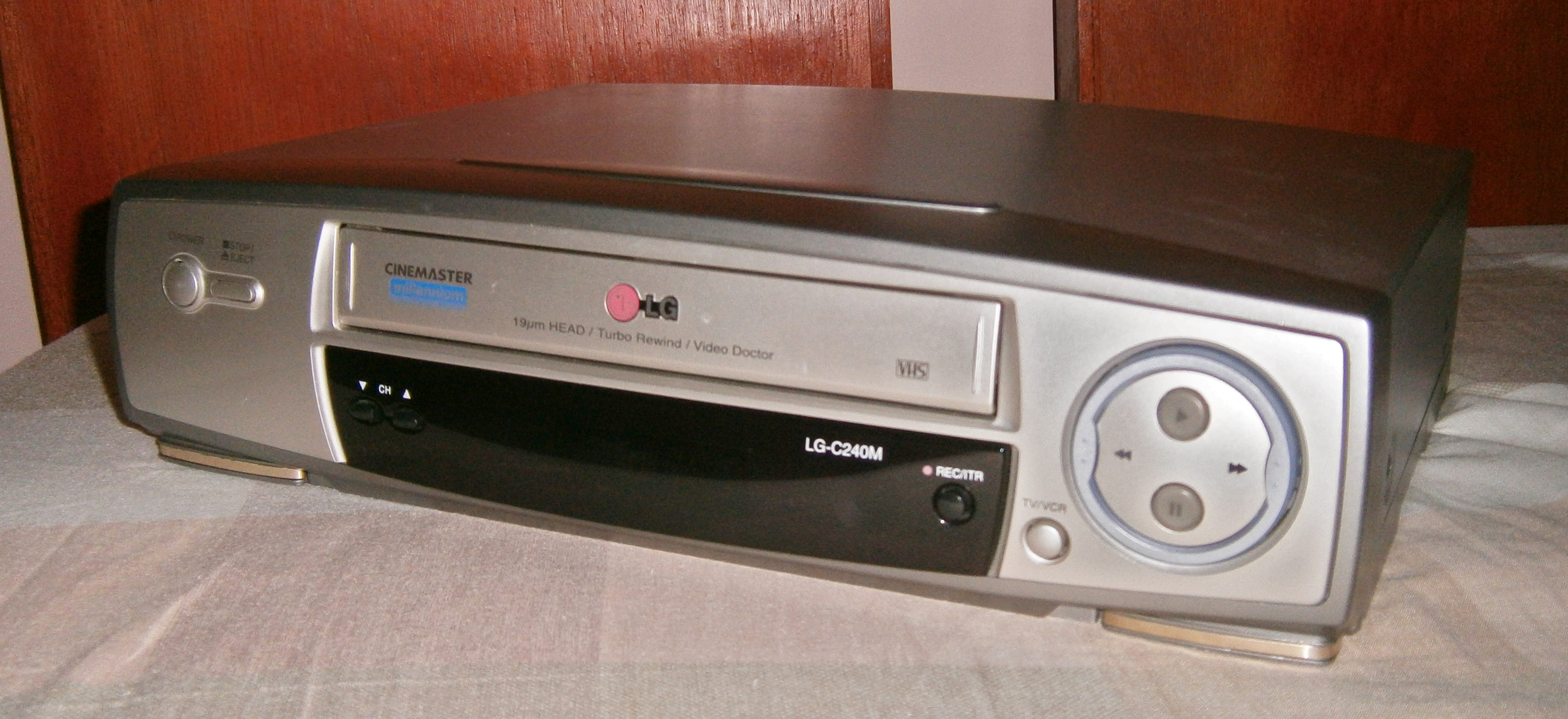 Video-cassette player model LG-C240M Reading and VCR VHS Recorder SP, SLP, EP, LP supports types of systems such as PAL, SECAM, NTSC, has TAI-Correction System for Automatically adjust the image system if it goes bad in a tape Photo by: Julian Andres July